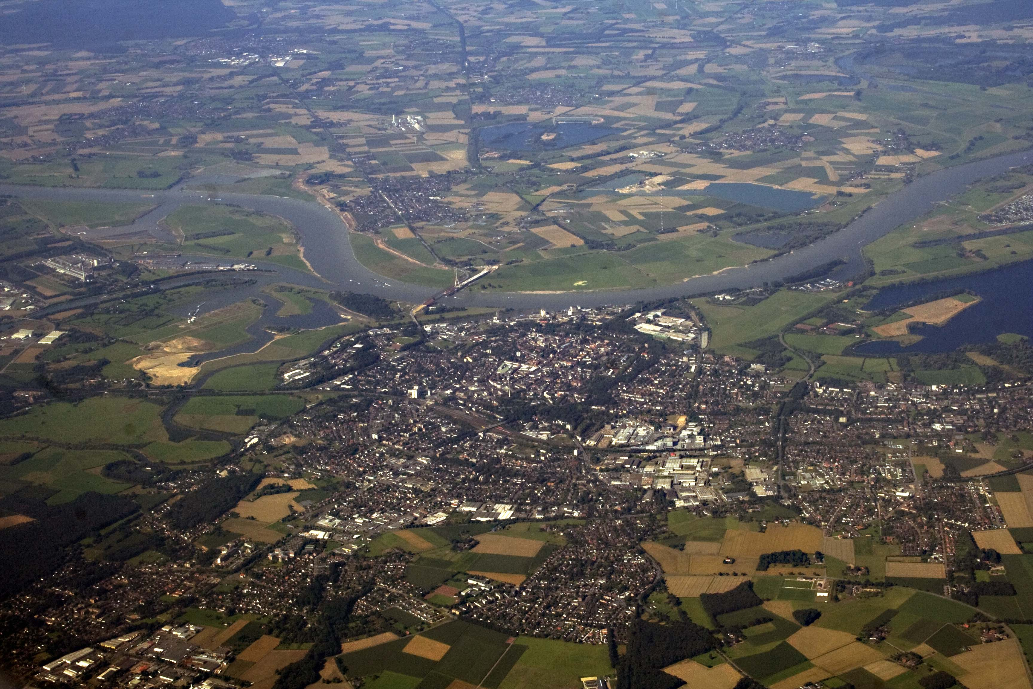 City of Wesel, Germany, altitude ca. 4000 m